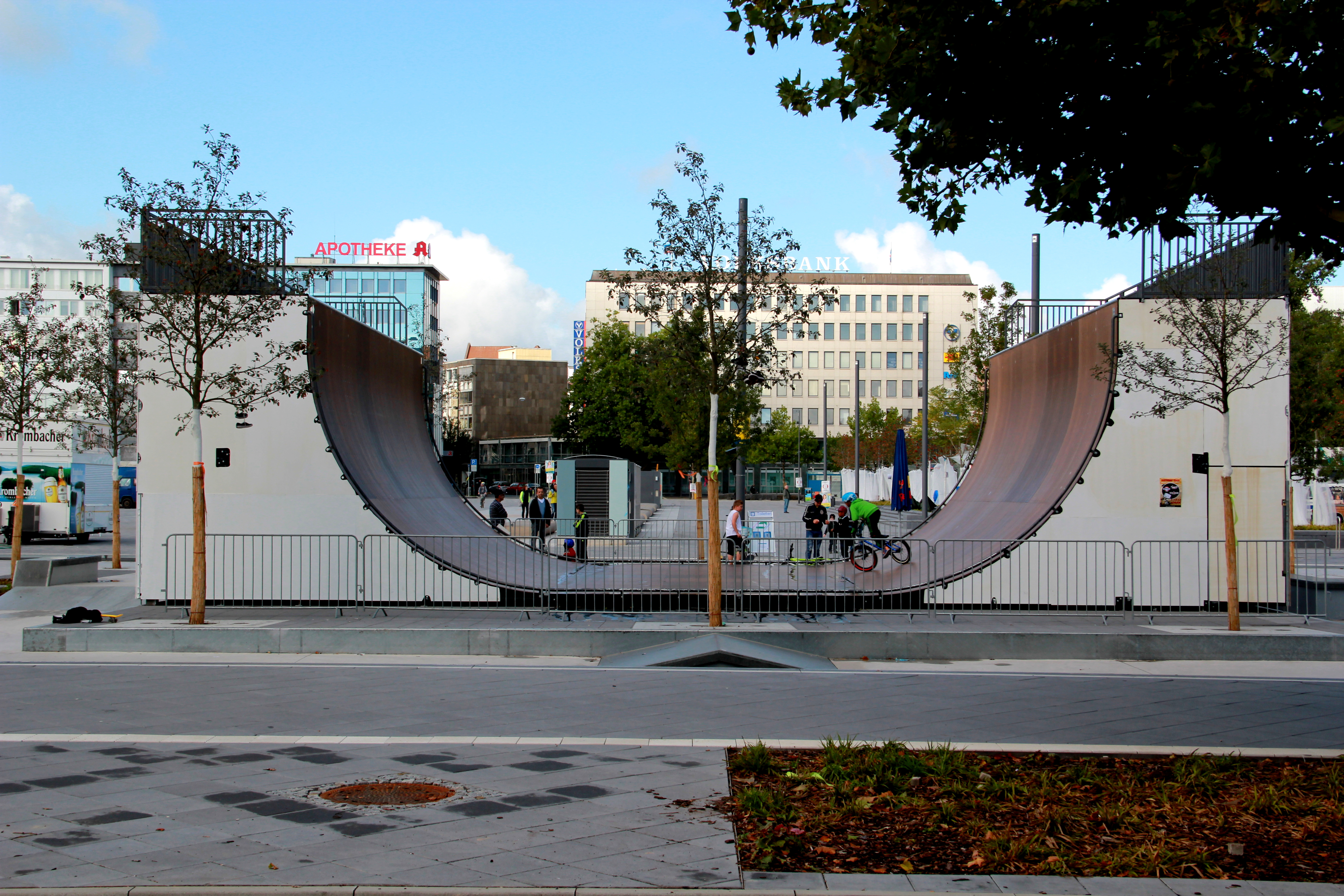 The new Vert Ramp on the Kesselbrink in Bielefeld